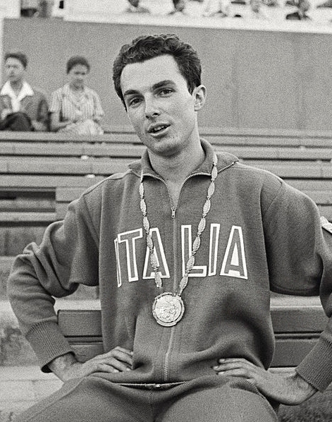 Livio Berruti at the 1960 Olympics